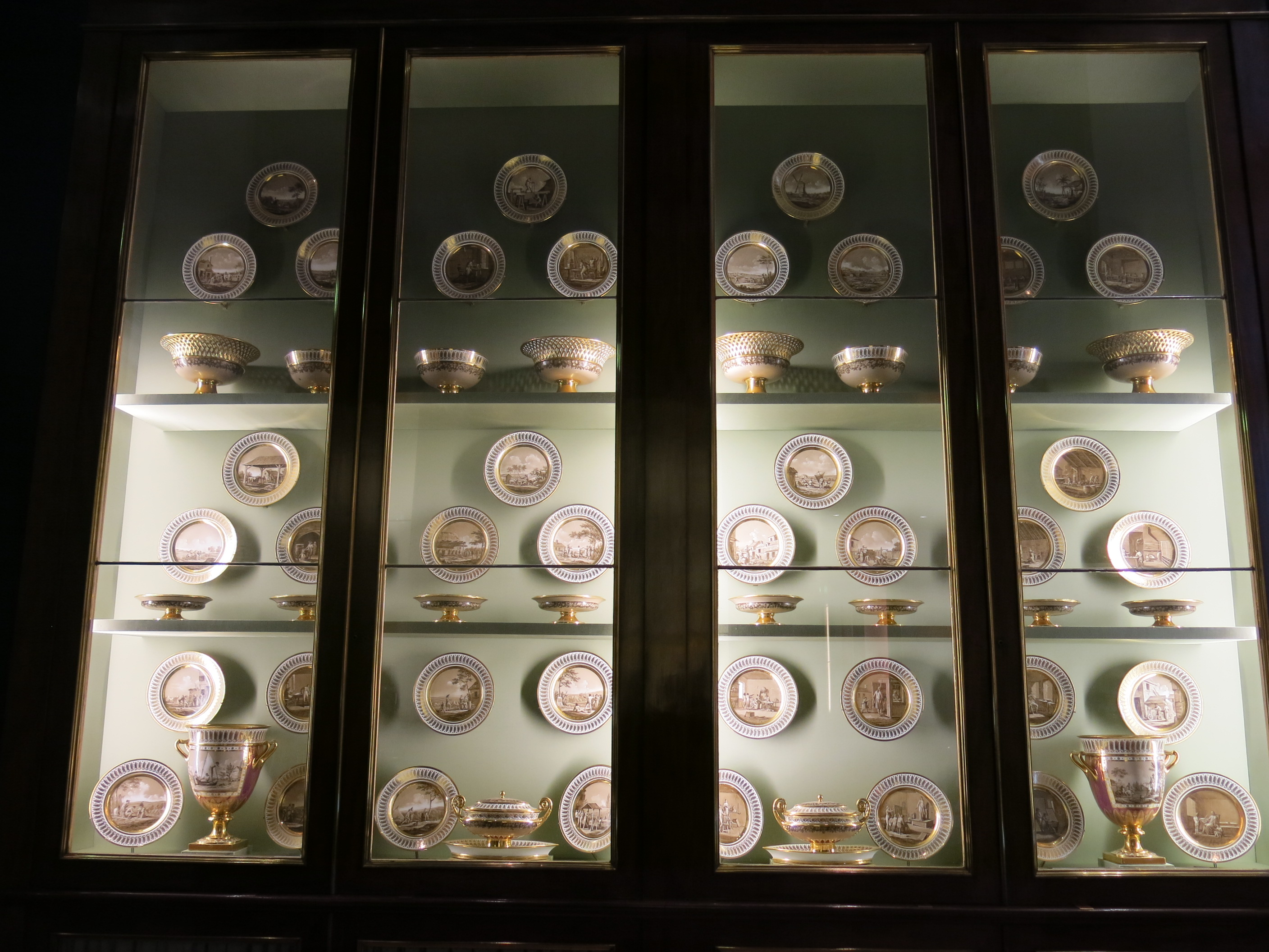 Collection of porcelain plates of the period of the French Empire. Louvre museum (Paris, France).